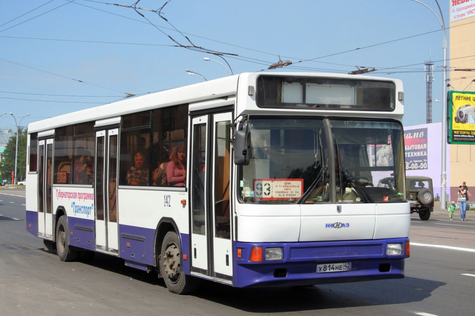 NefAZ 5299 bus (reg. Y 814 HE 42, #142) in Kemerovo, Russia.